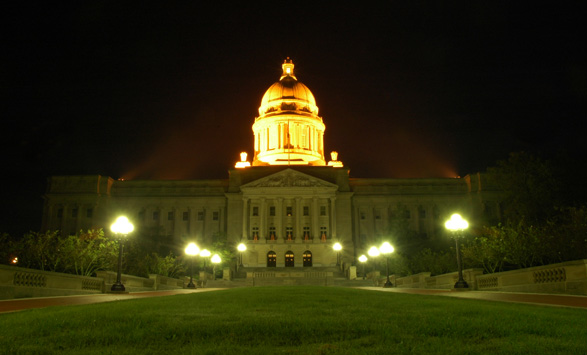 The capitol building at night. Photograph taken by Sherman Cahal; it can also be found on his site, American Byways.